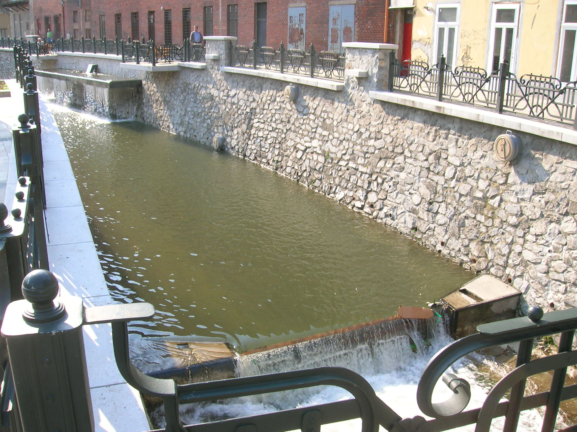 The Szinva stream at the Szinva Terrace square, Downtown Miskolc, Hungary.